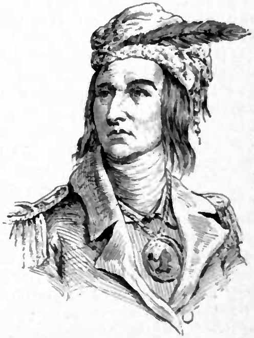 Portrait drawing of Shawnee chief Tecumseh, based on an engraving by Benson John Lossing. For original sources and the question of accuracy, see the latter's Wikimedia Commons description.